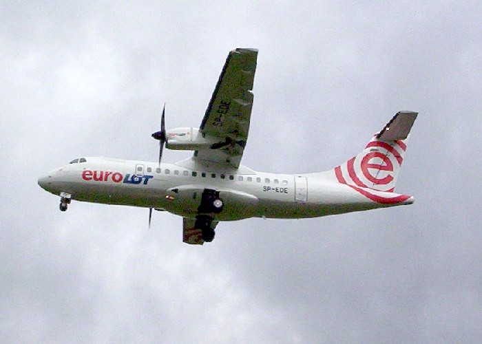 EroLOT ATR-42-500 SP-EDE landing on Okęcie Airport, Warsaw.